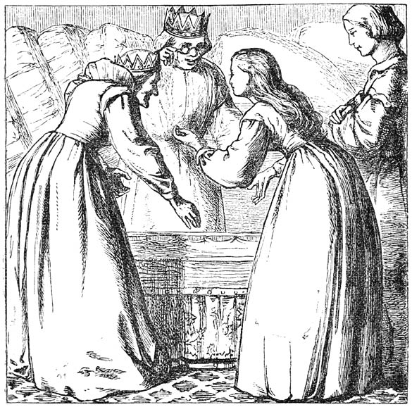 From 'Andersens Sproken en vertellingen' by Hans Christian Andersen, Titia van der Tuuk (ed.) and Simon Jacob Andriessen (trans.). Gebroeders E. & M. Cohen, Nijmegen - Arnhem. Illustrated by Alfred Walter Bayes (1832-1909) and engraved by the Dalziel Brothers (Edward Daziel, 1817-1905; George Daziel, 1815-1902).